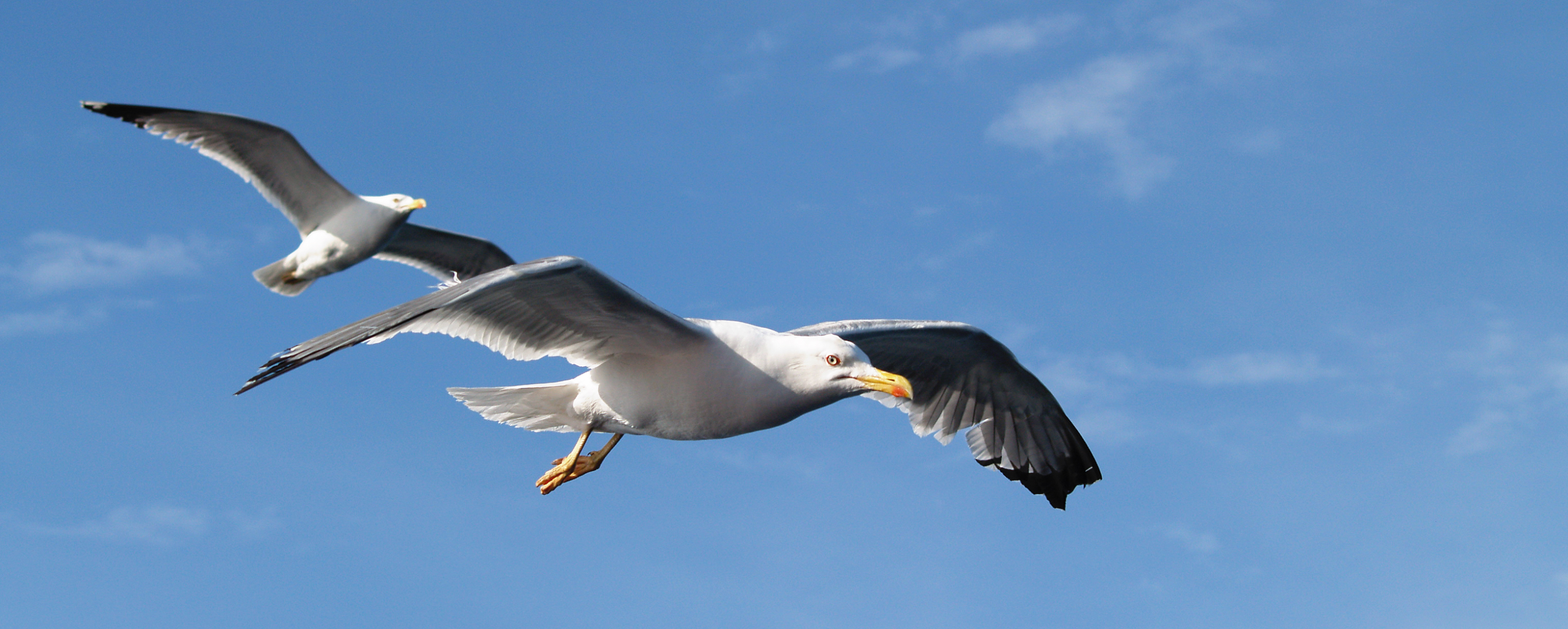 adult Yellow-legged Gull (Larus michahellis), in flight, Thasos, Greece